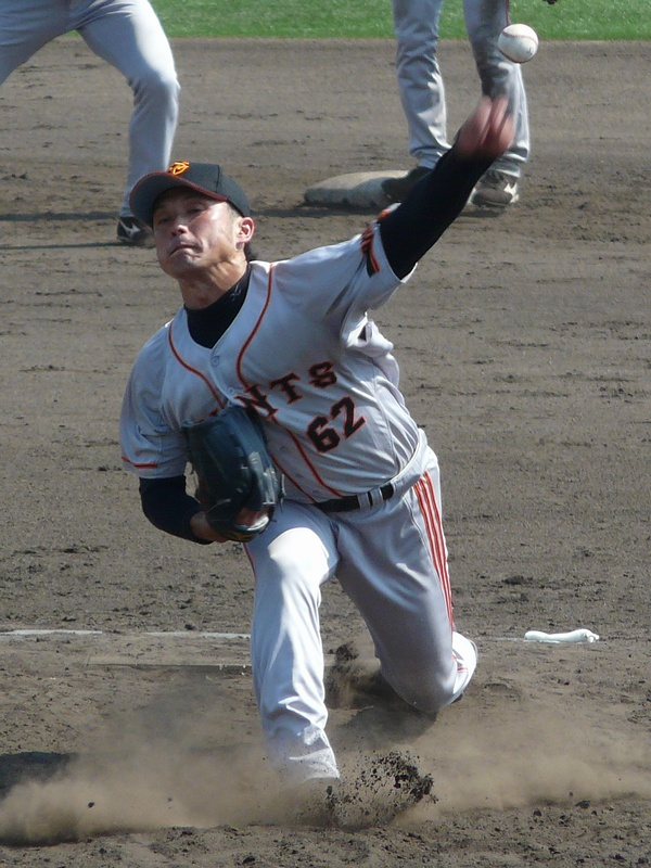 YG-Takahisa-Ueno20110629